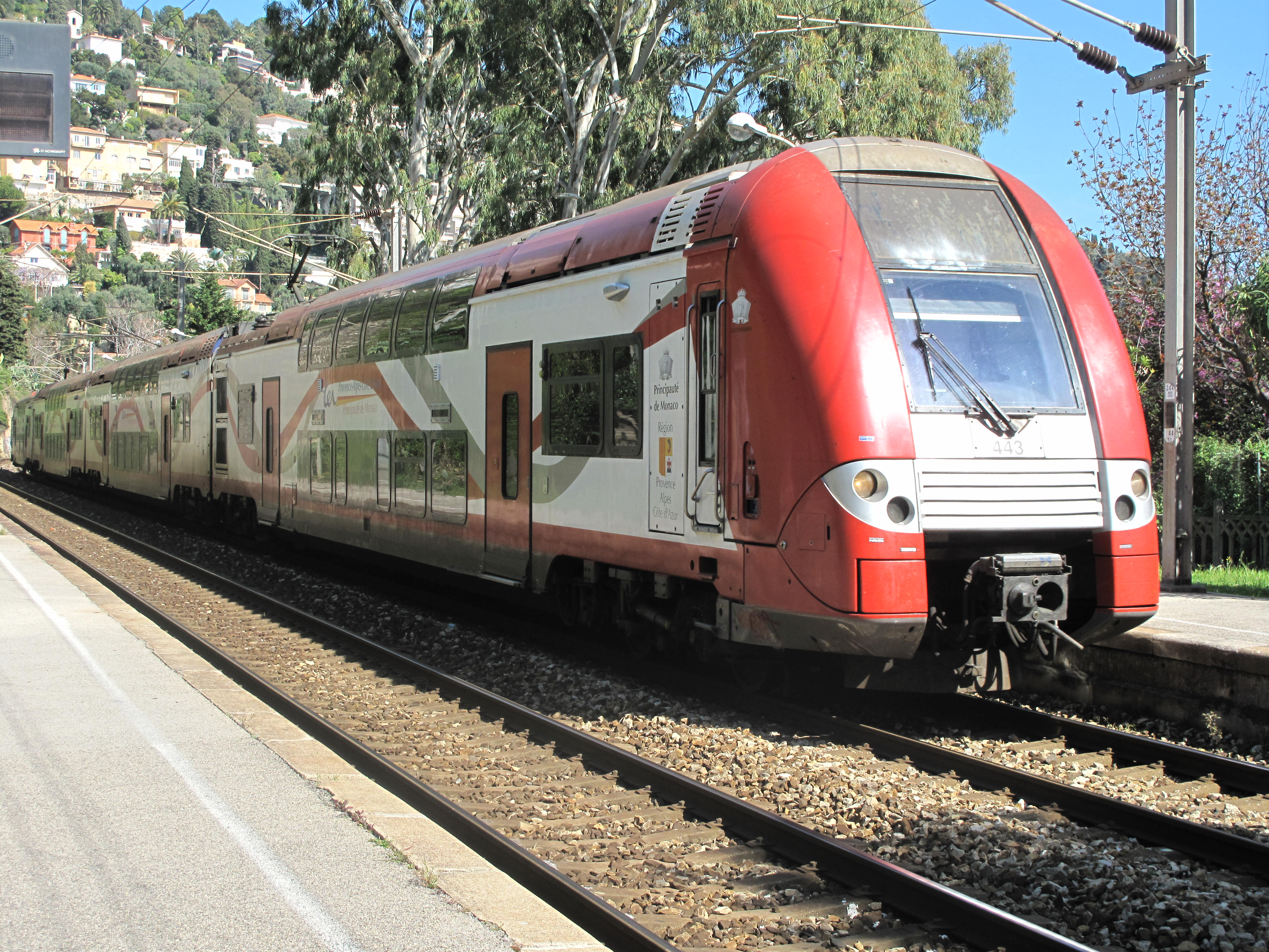 TER in the station of Roquebrune-Cap-Martin, Alpes-Maritimes, France. The red livery is the livery of the multiple units of Monaco